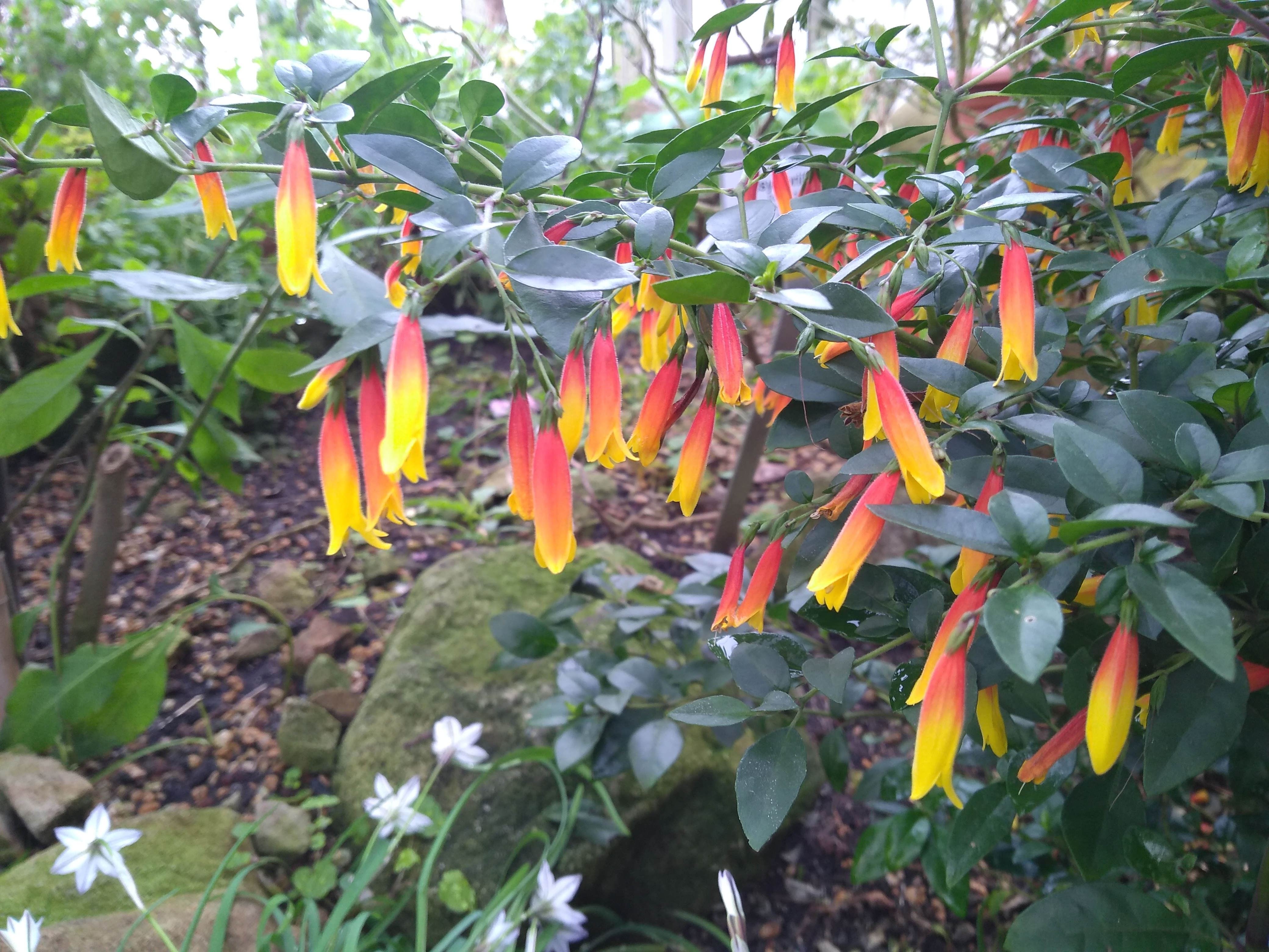 Justicia floribunda (C. Koch) D.C. Wassh. in the Botanischer Garten Berlin-Dahlem